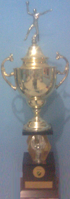 Trophy Handball Brazilian Championship Women's